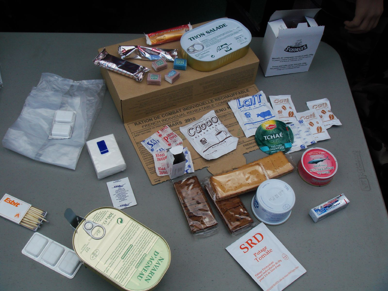 Contents of one French Military Combat Ration (French Individual Reheatable Combat Ration): Lamb stew, Tuna salad, Green Tea...